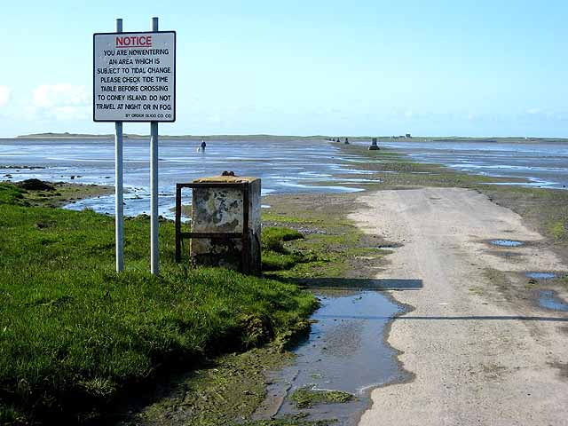 The road to Coney Island Although Coney Island only lies 400m off the shore of Rosses Point, it is separated from it by a deep channel. The road to Coney Island crosses the mudflats for 2.5km from Scarden on the other side of Sligo Harbour and is closed every high tide.